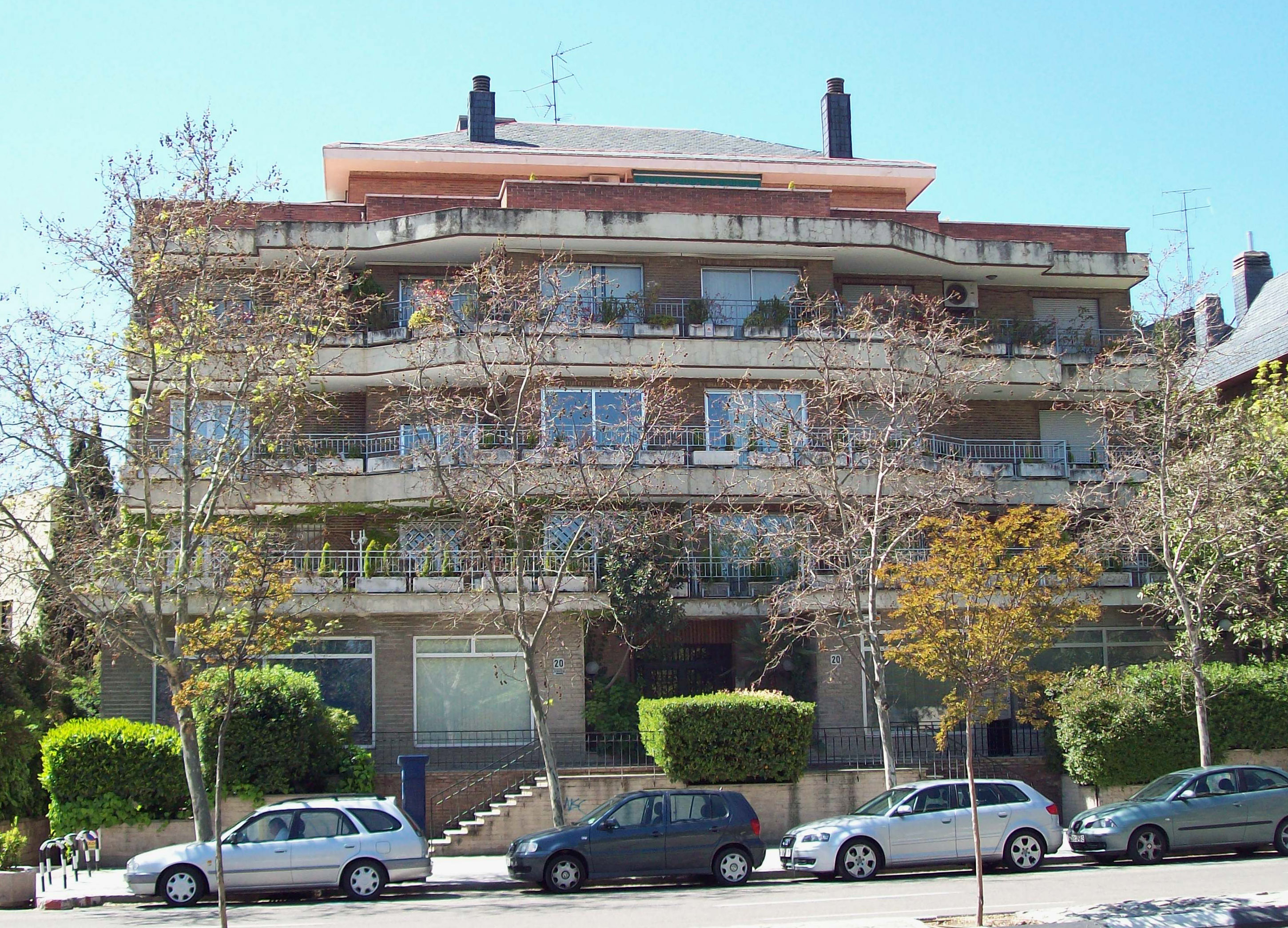 Façade of the building at 20 Calle de los Caídos de la División Azul (street) in Chamartín district in Madrid (Spain). In it, there is an apartment property of Eufemiano Fuentes, a person implicated in the Operación Puerto doping case.